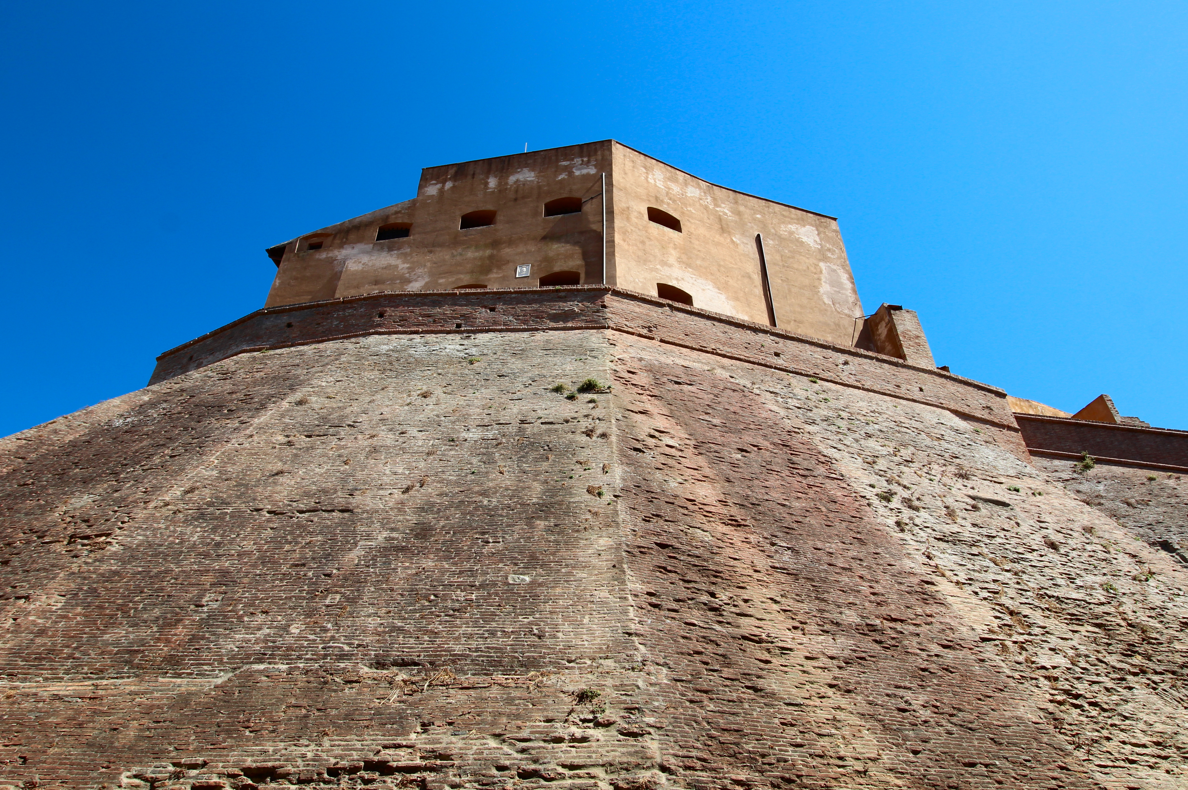 Castle Castello dei Vicari, Lari, hamlet of Casciana Terme Lari, Province of Pisa, Tuscany, Italy